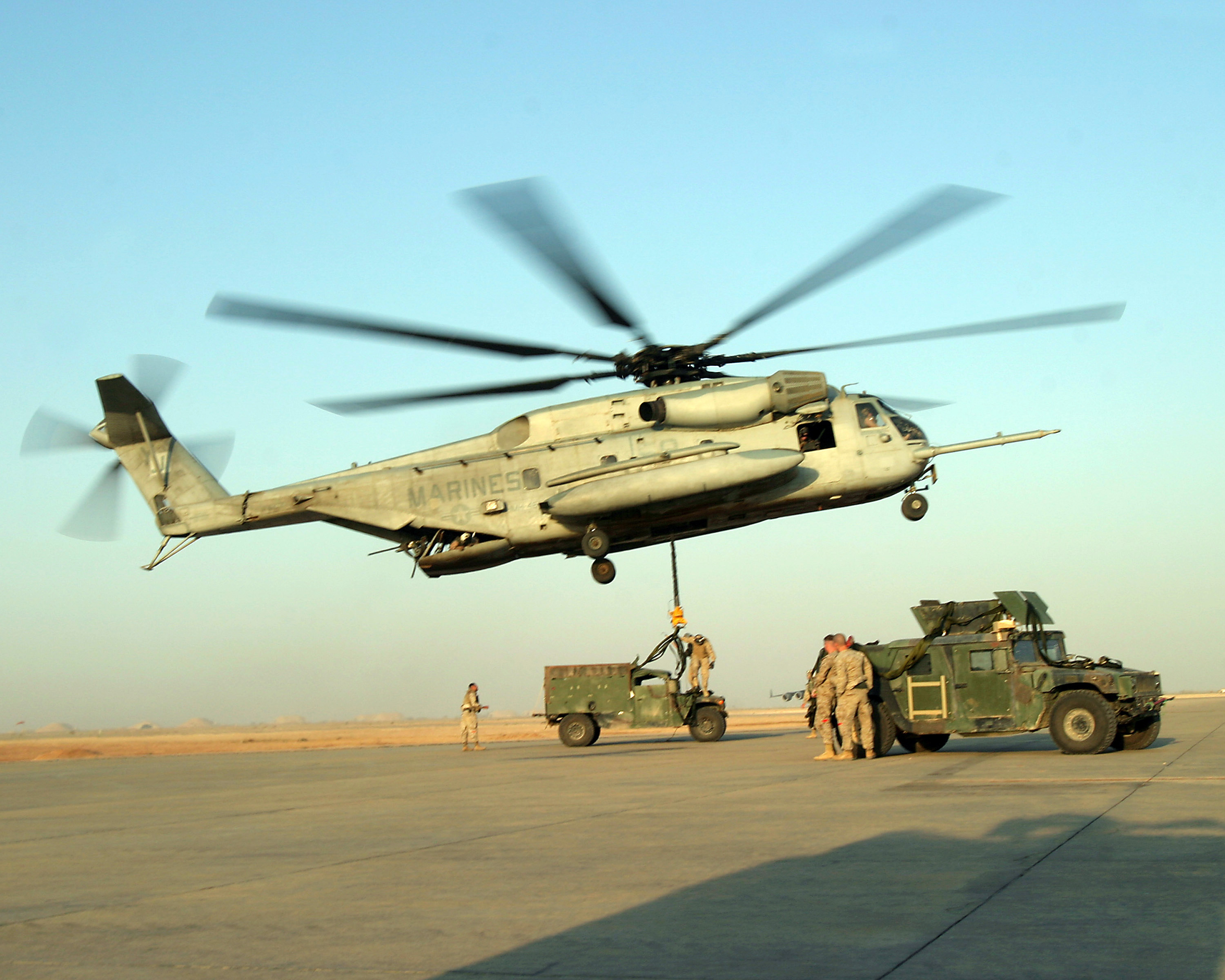 Al Asad, Iraq (May 3, 2005) - U.S. Marines assigned to Combat Logistics Battalion Two, attach cargo straps around a High Mobility Multipurpose Wheeled Vehicle (HMMWV), to a CH-53E Super Stallion helicopter for transfer from the flight line of Al Asad, Iraq to infantry Marines on the ground. Marines assigned to 3rd battalion 25th Marines will use the HMMVW during Operation River Sweep in support of Operation Iraqi Freedom (OIF). U.S. Marine Corps photo by Cpl. Alicia M. Garcia (RELEASED)